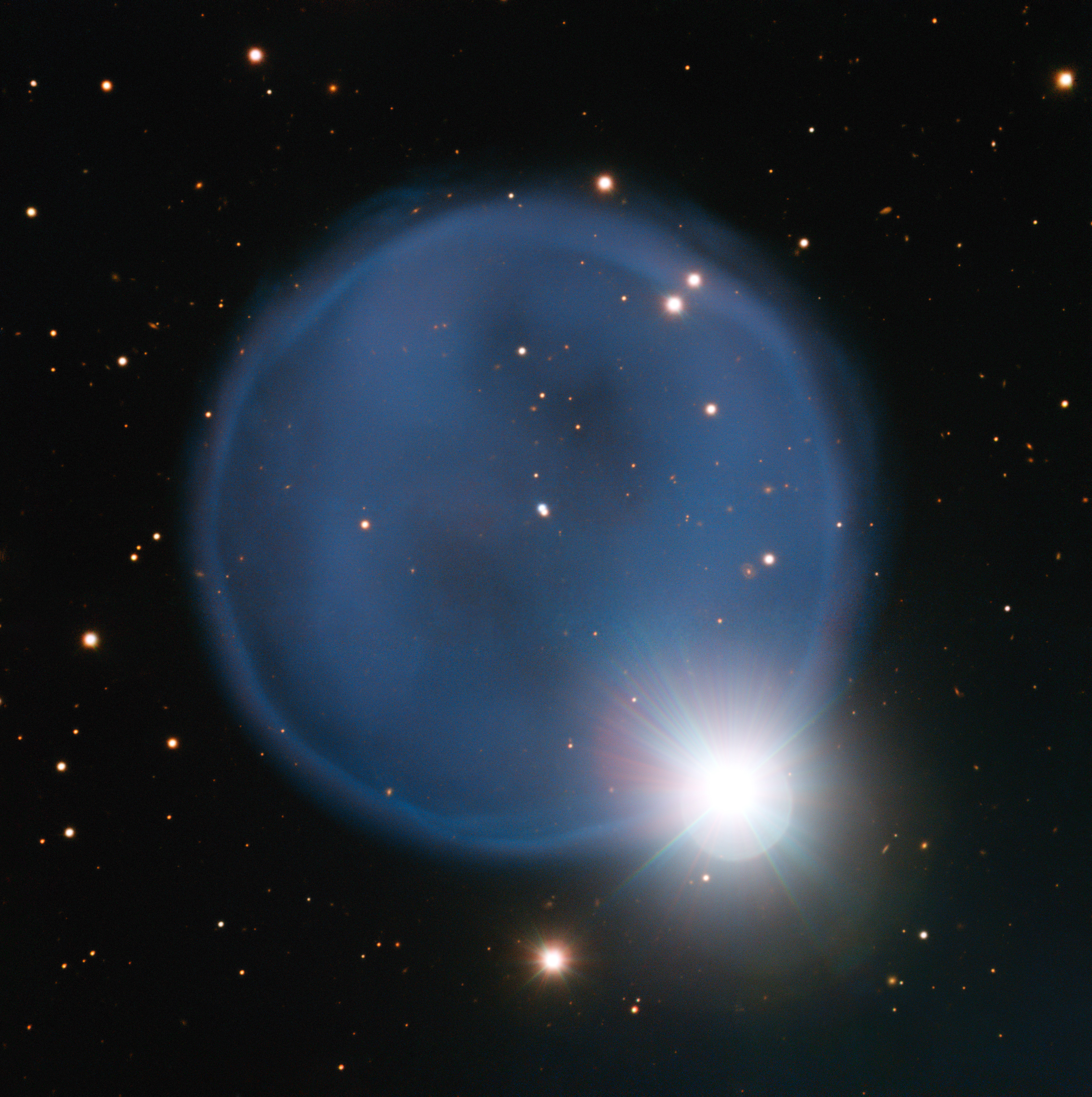 Astronomers using ESO’s Very Large Telescope in Chile have captured this eye-catching image of planetary nebula Abell 33. Created when an aging star blew off its outer layers, this beautiful blue bubble is, by chance, aligned with a foreground star, and bears an uncanny resemblance to a diamond engagement ring. This cosmic gem is unusually symmetric, appearing to be almost perfectly circular on the sky.